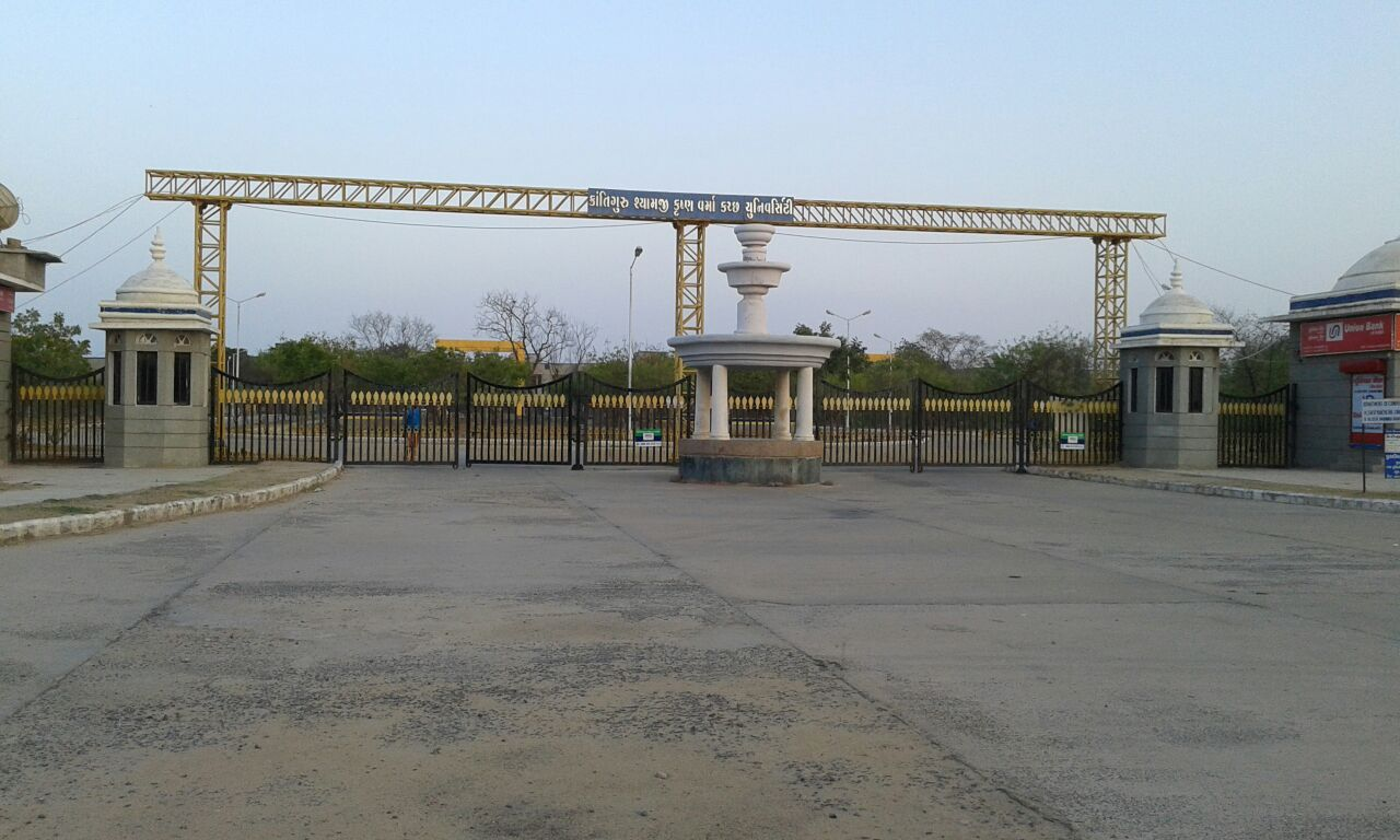 Main gate of KSKV Kutch University, Bhuj, Gujarat, India